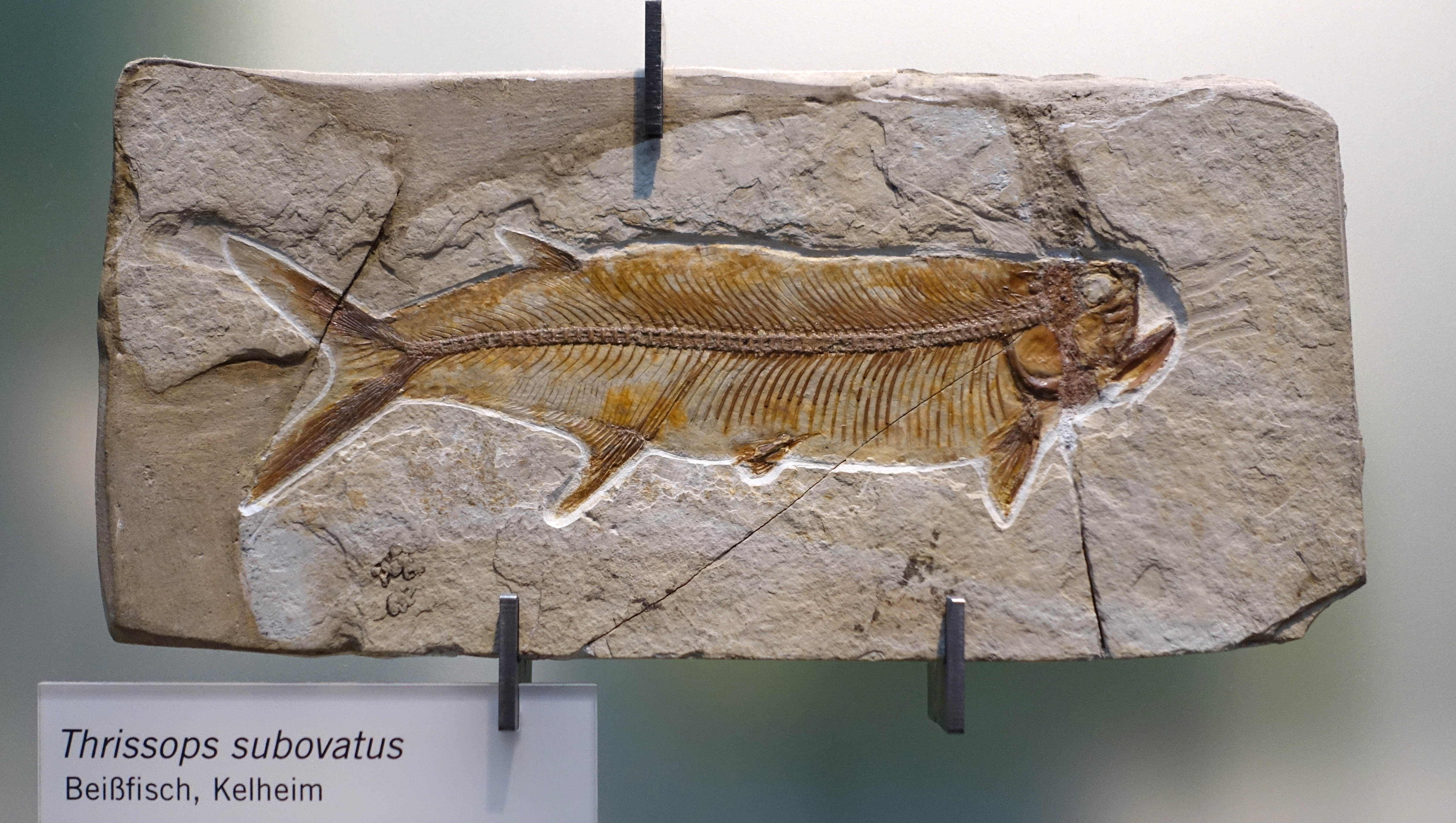 Fossil fish in Museum für Naturkunde, Berlin, Germany.